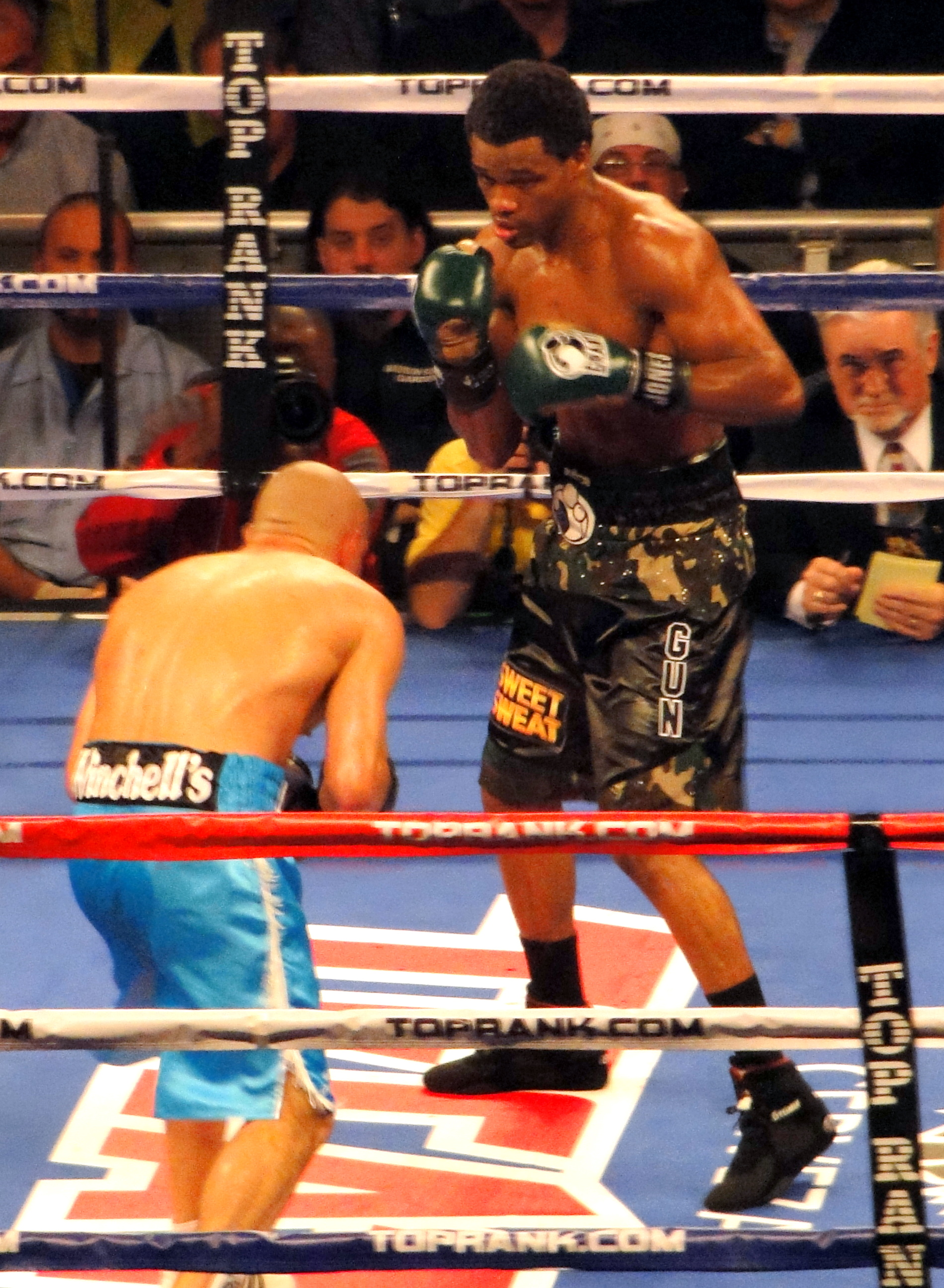 Mike Jones vs. Sebastian Andres Lujan at the Madison Square Garden on December 3, 2011.